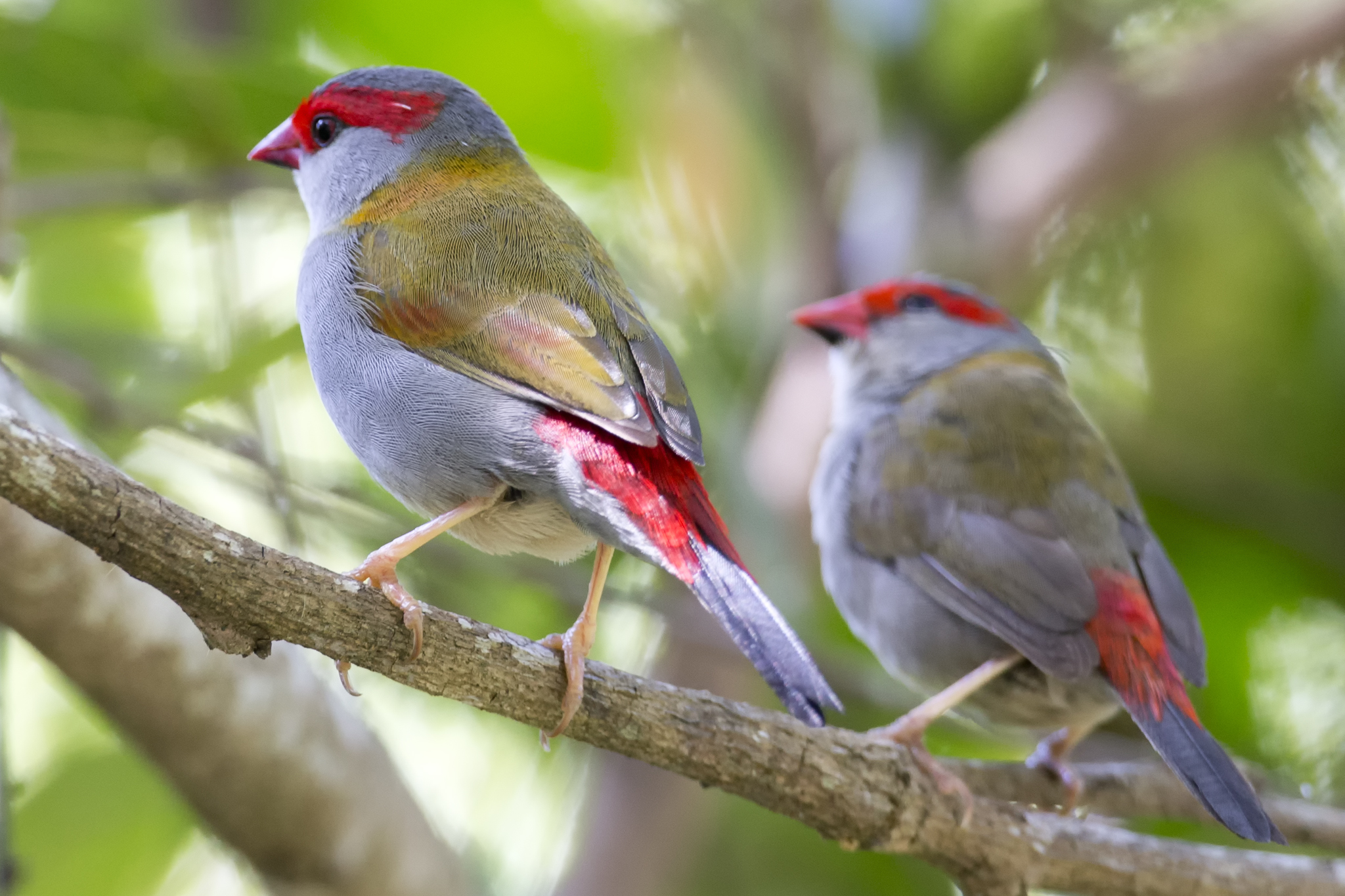 Red-browed Finch (Neochmia temporalis). Julatten, North Queensland